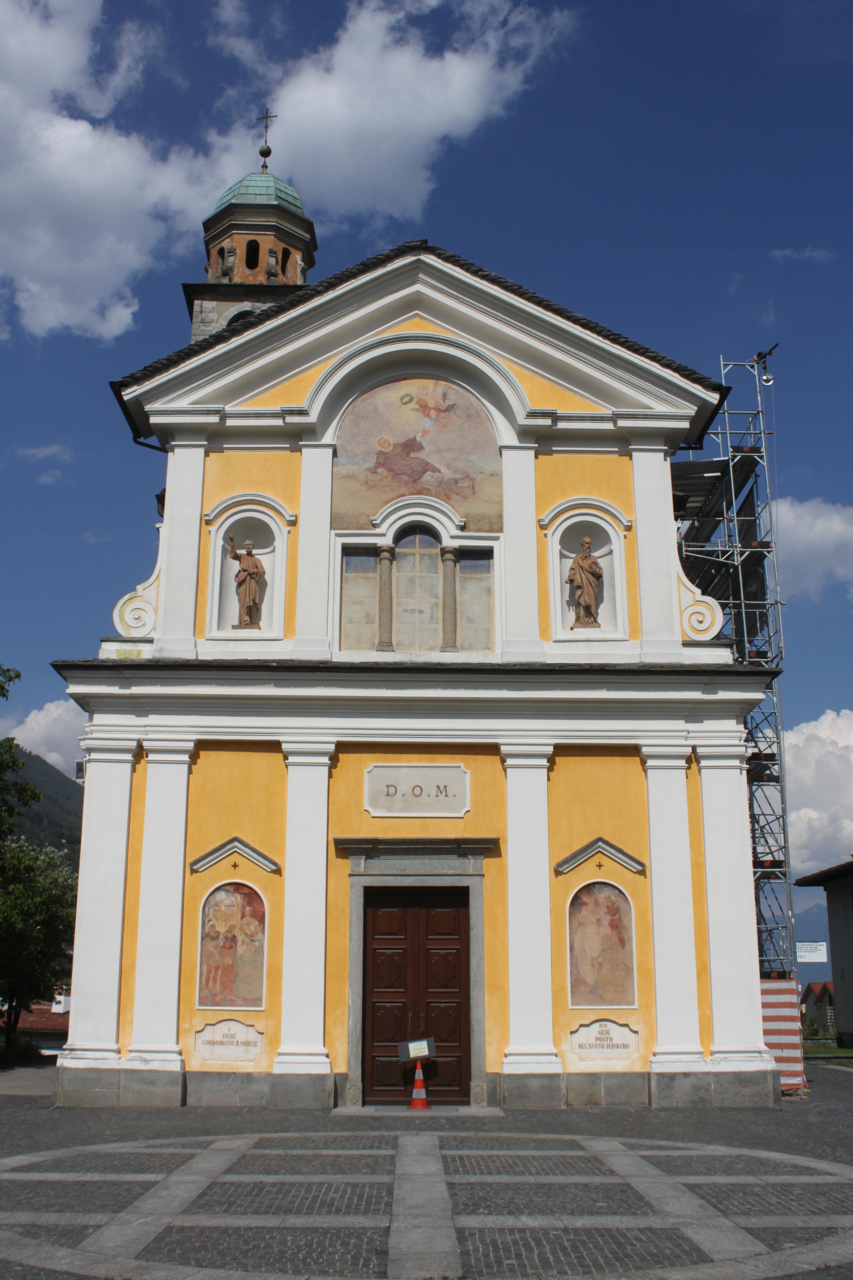 San Lorenzo church in Losone.